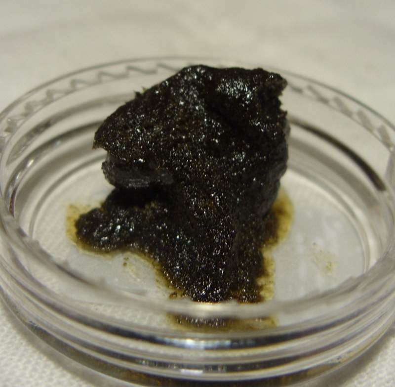 Himalayan style extraction of cannabis Indica trichomes, purified and cured. One gram weight. Obtained from Purple Kush indica.